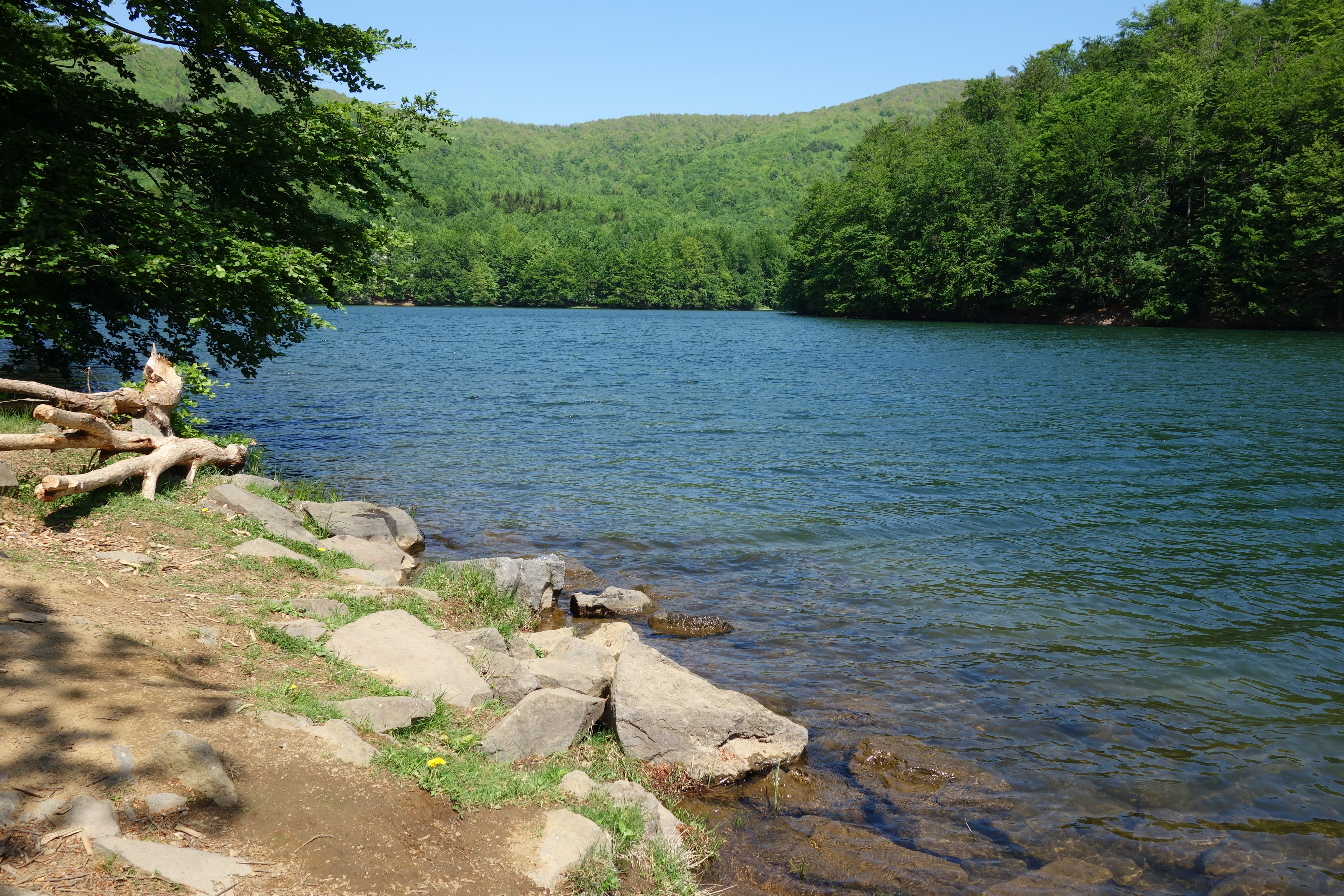 Sea Eye Lake in May This is a photography of Natura 2000 protected area with ID SKUEV0209